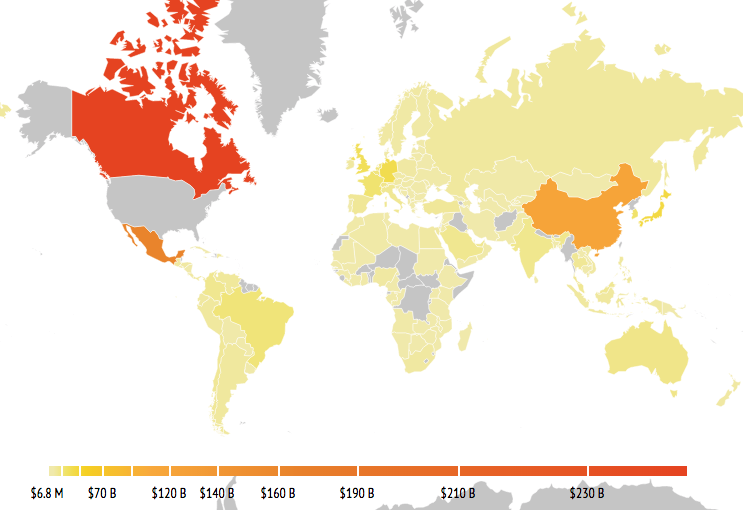 How much the US exported to other countries.